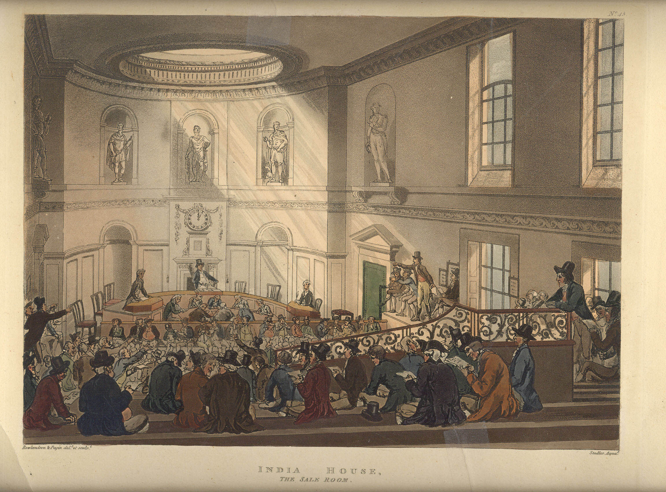 India House, London: The Sale Room, 1808 (with an auction going on), an etching with watercolor by Thomas Rowlandson* (FAMSF); *a very large scan of this etching*